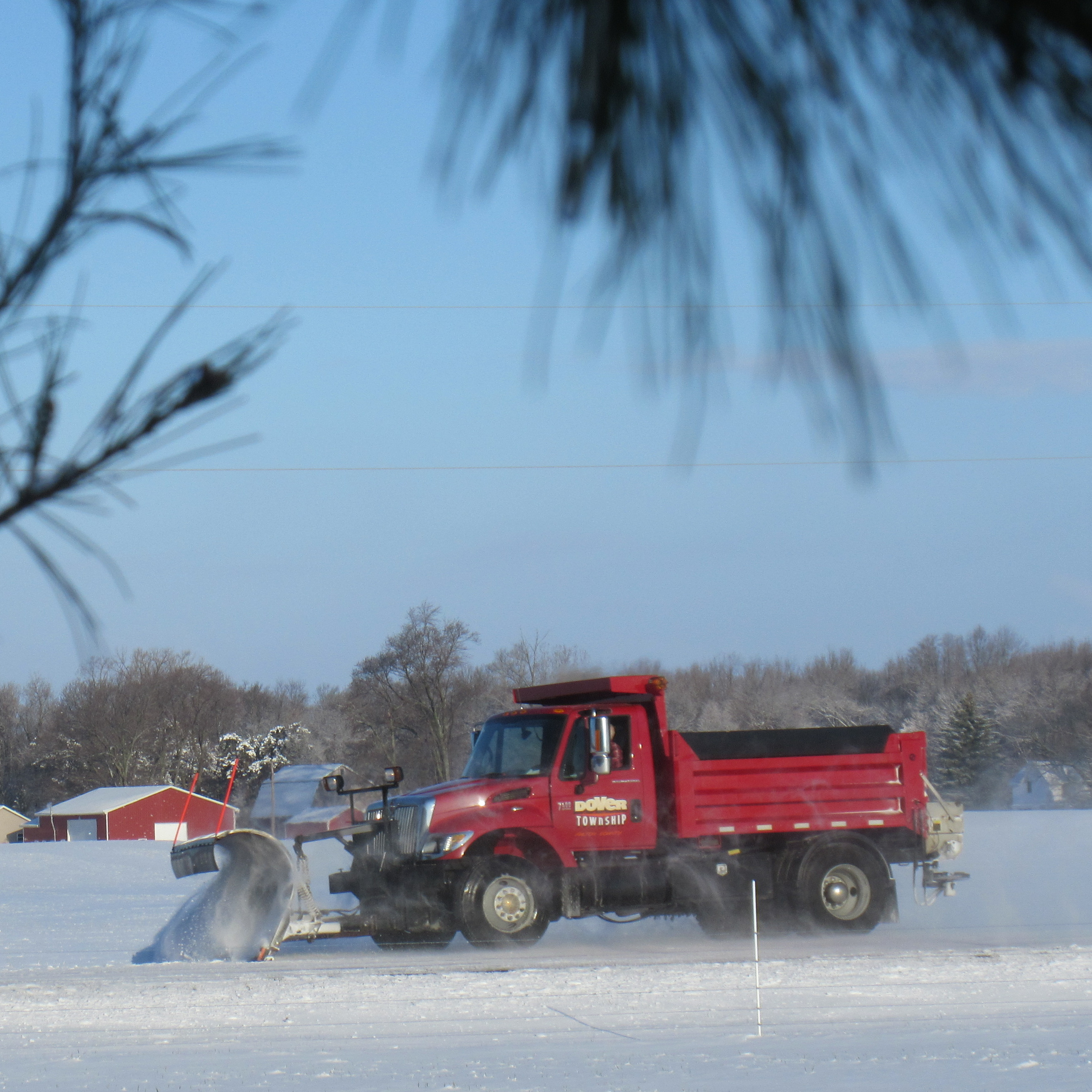 Dover Township, Fulton County, Ohio. Snow Plow, April 9, 2016. (The truck is an International 4000/DuraStar)